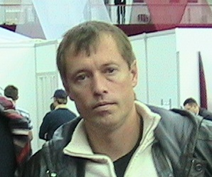 Andrey Olkhovsky. Moscow. 2009 Kremlin Cup